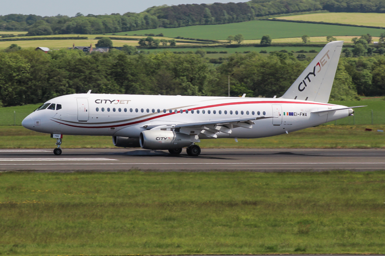 EI-FWA Sukhoi Superjet of CityJet doing a spot of crew training at Prestwick